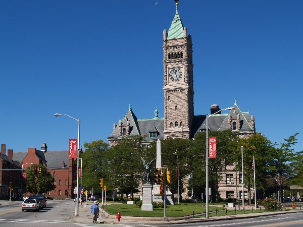 Lowell City Hall Completed in 1893.